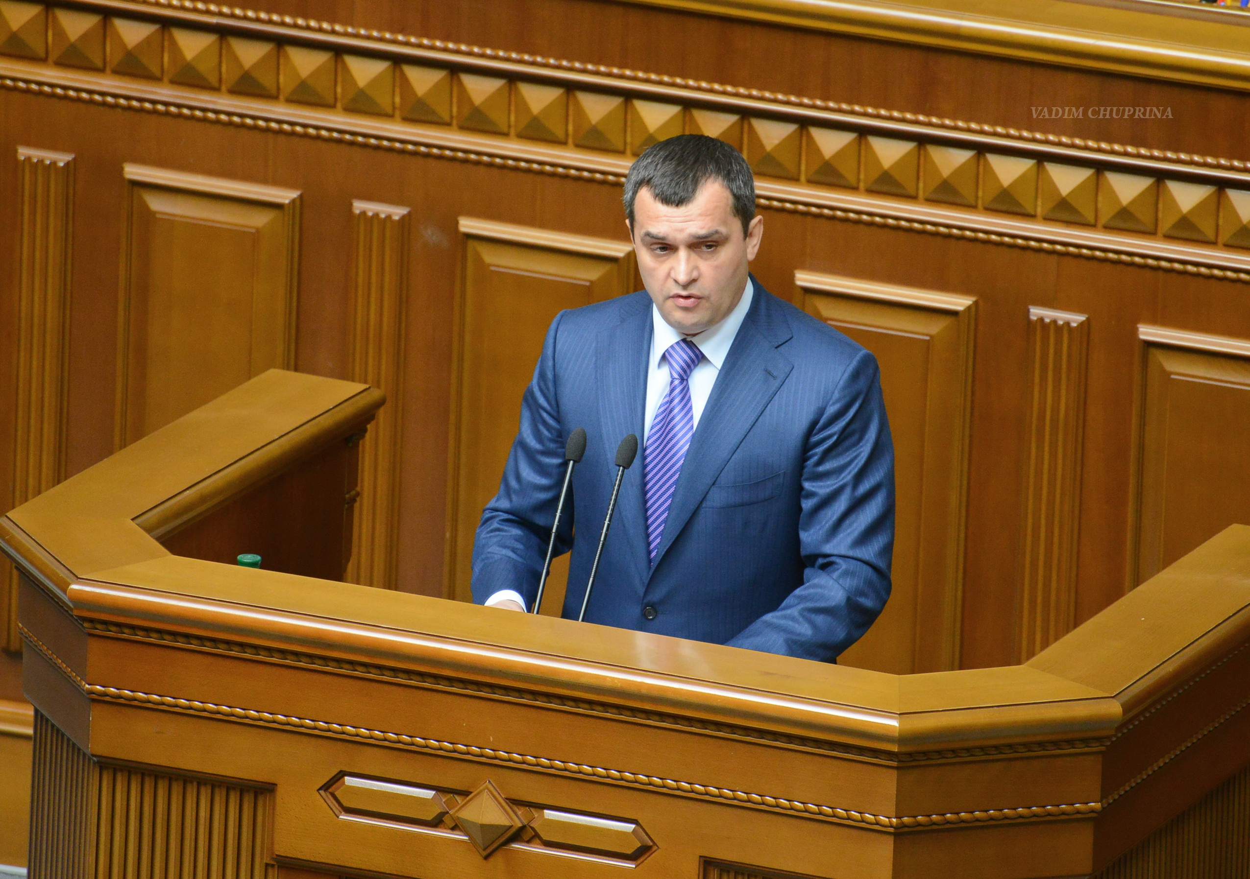 Ukrainian politicians VADIM CHUPRINA